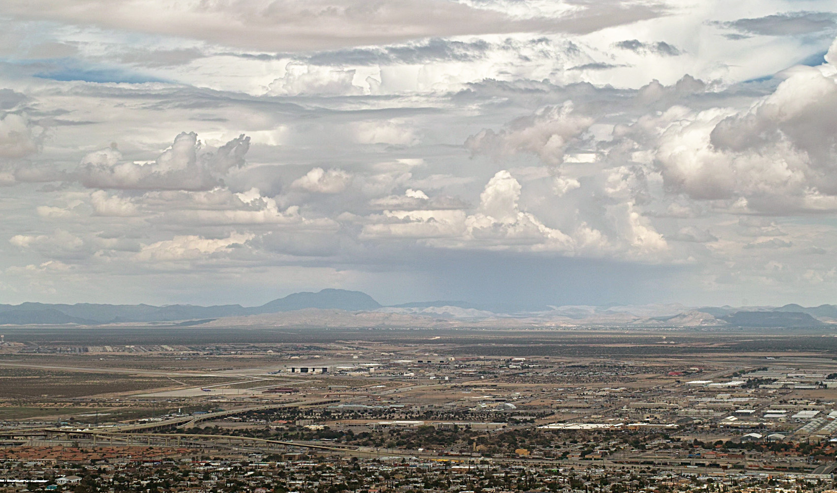 A view of the Hueco Mountains in sun and rain, from the base of the Wyler Aerial Tramway in El Paso, July 27, 2012.